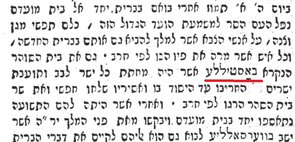 A report on the Fall of the Bastille in the Prussian Hebrew-language Maskilic journal Ha-Me'assef, published in Berlin. The word "Bastille" is underlined.